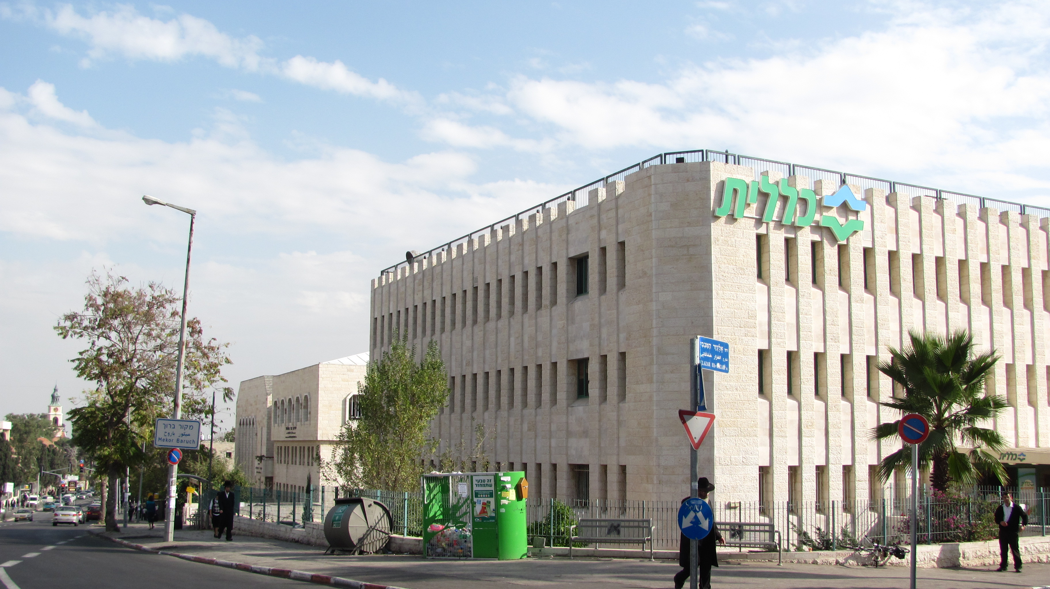 Clalit Medical Center (right) in Mekor Baruch neighborhood of Jerusalem, Israel. The bell tower of the Schneller Orphanage is seen at far left.